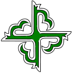 Fylfot simbol of Sun-God in Deela-Malkh in Nakh mythology.